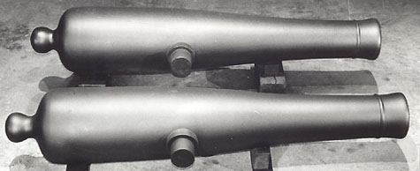 Original and replica Stedman 6-pdr iron field gun